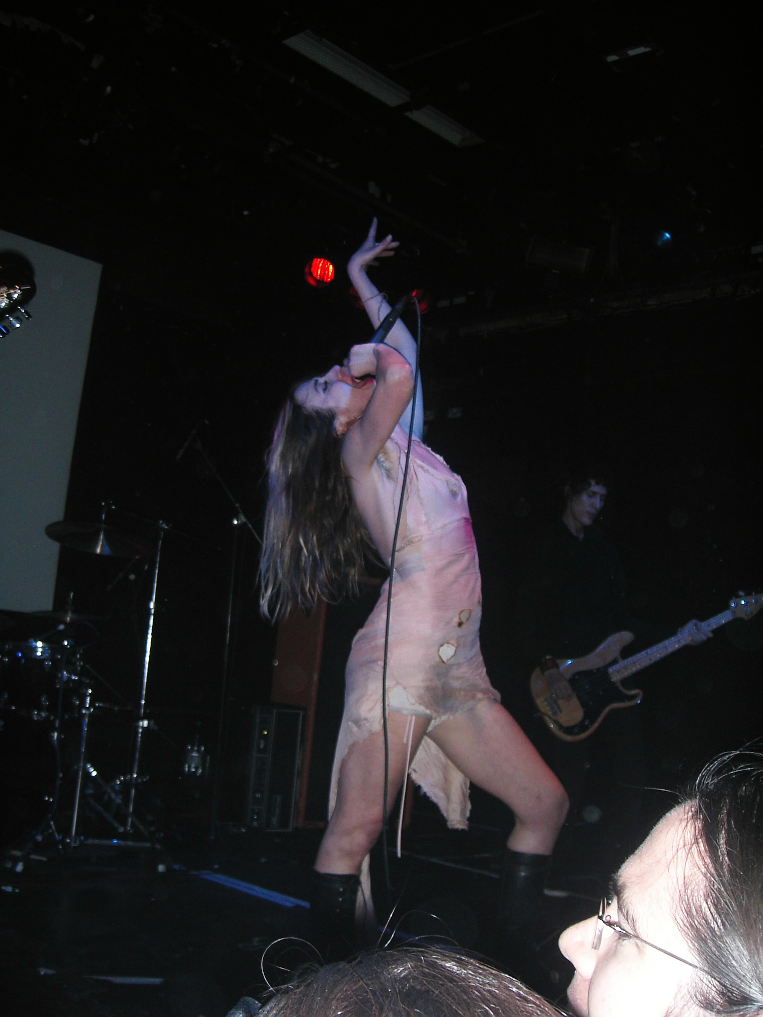 What a pose! One of my favourite QA Gigs